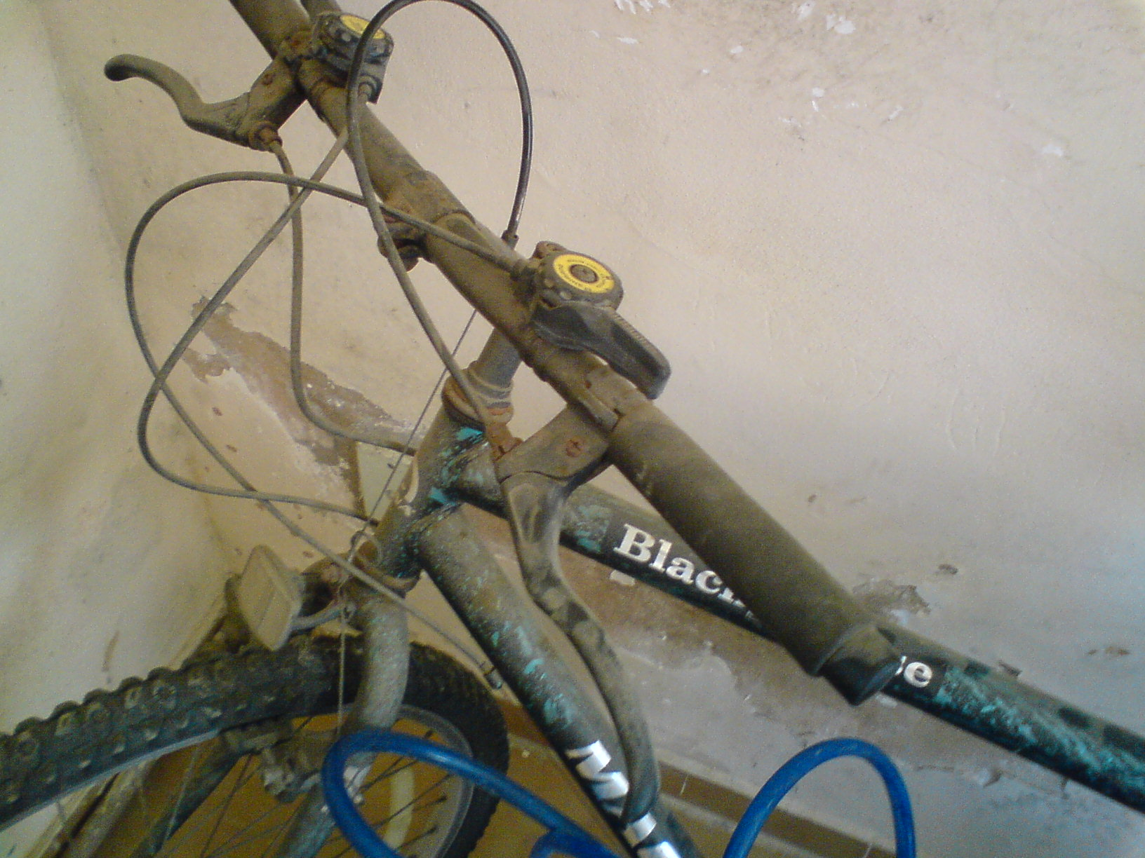 Uma bicicleta coberta de poeira (a bicycle covered with dust)